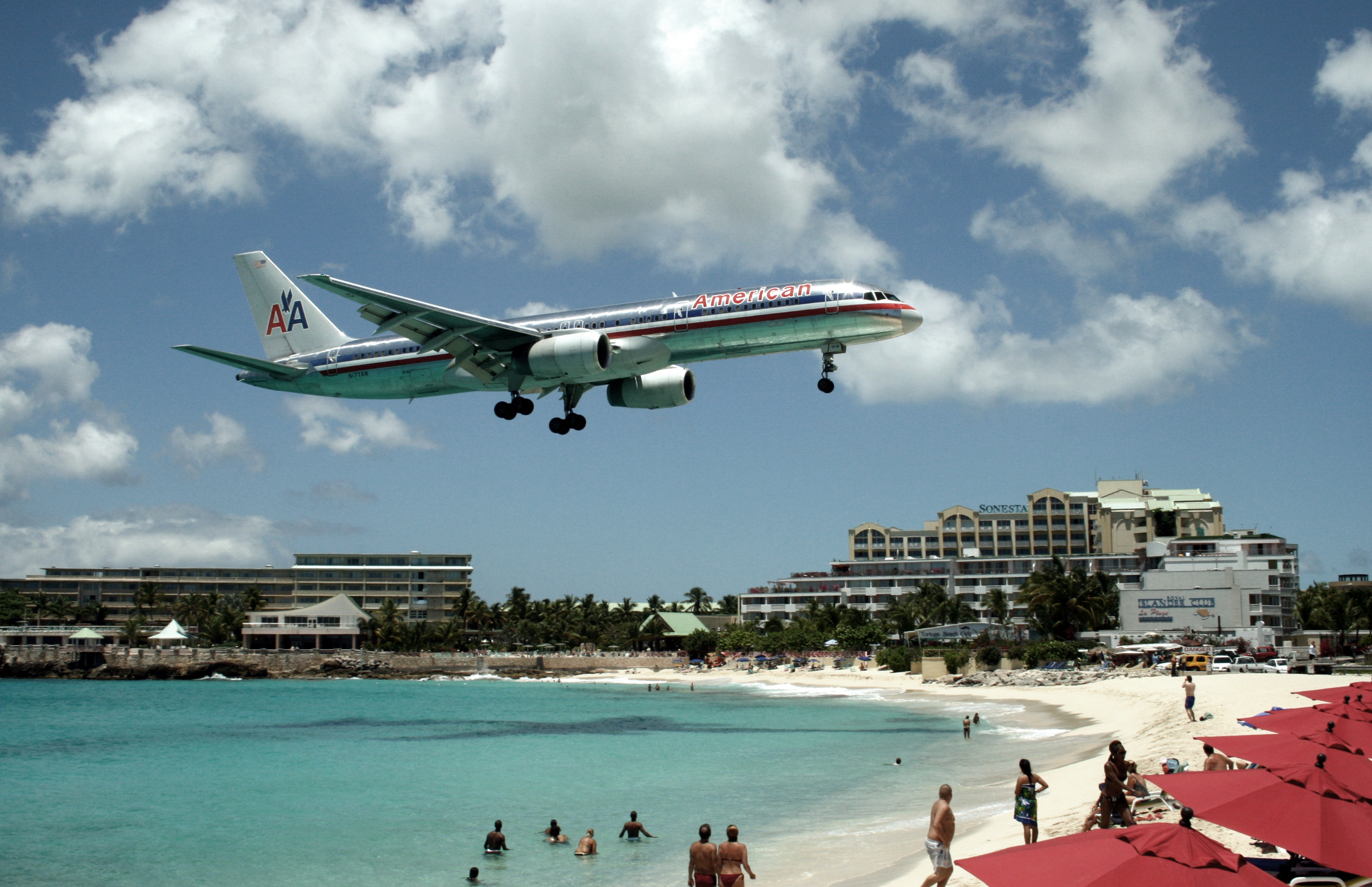 American Airlines Boeing 757 on final approach at St Maarten Juliana International Airport on the isle of Saint Martin